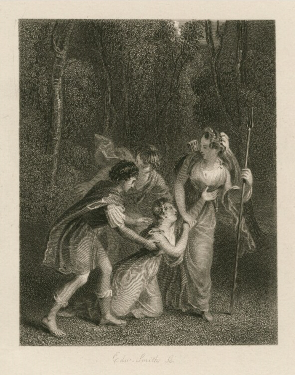 Illustration of Act 2, Scene 3 from Titus Andronicus